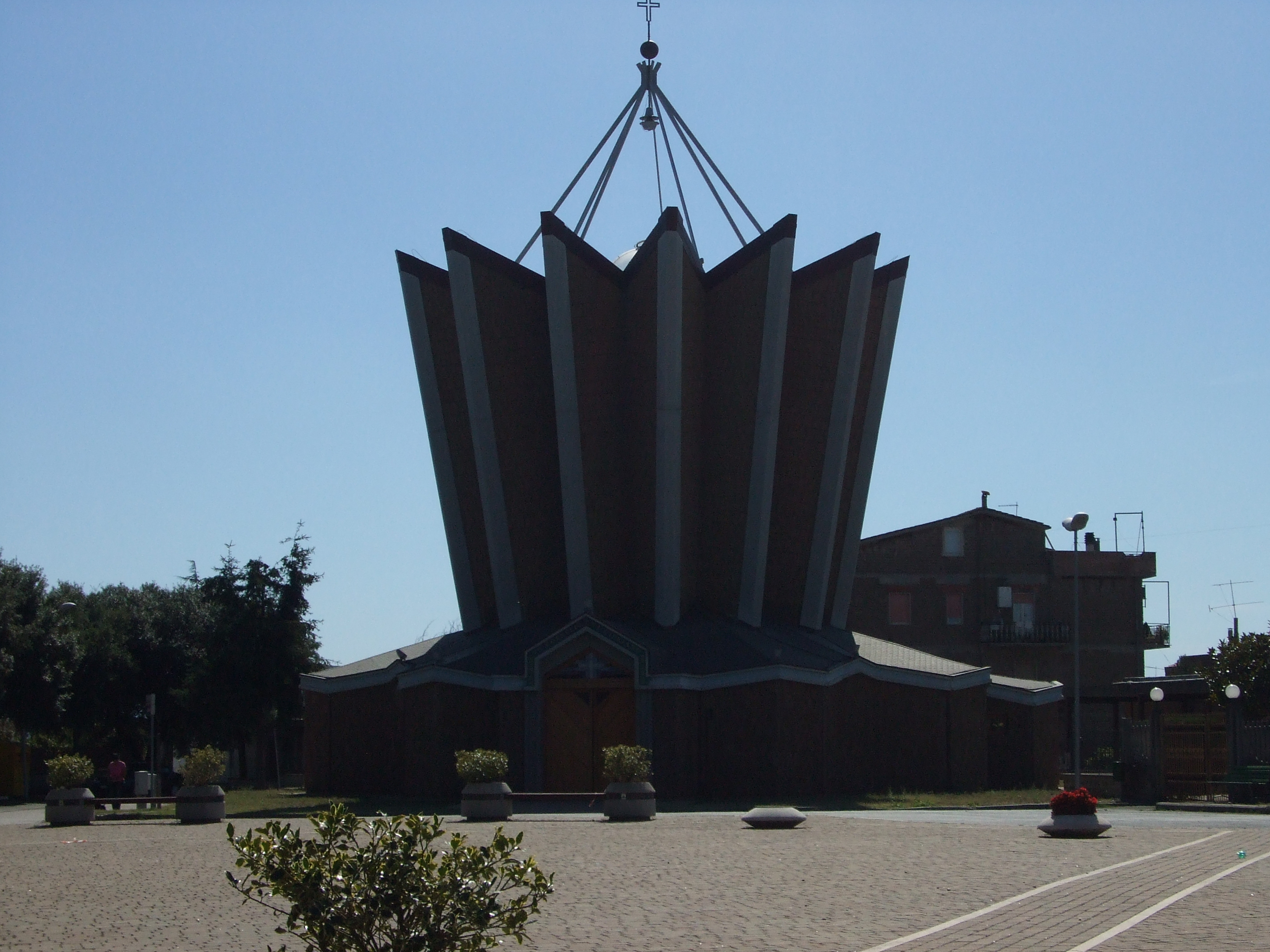 The church dedicated to Saints Calcata Cornelius and Cyprian